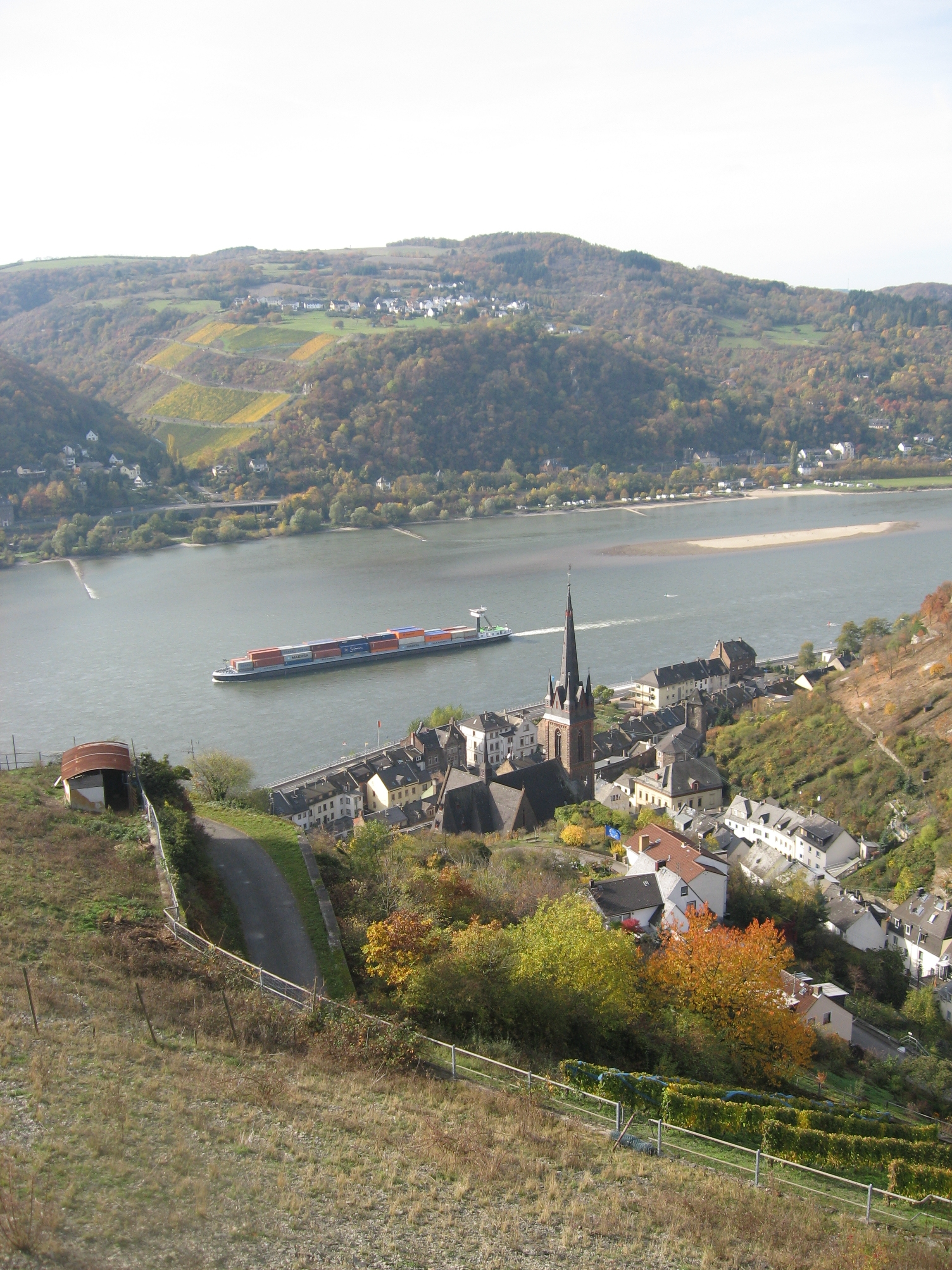 Lorchhausen in the Rheingau landscape, Germany.